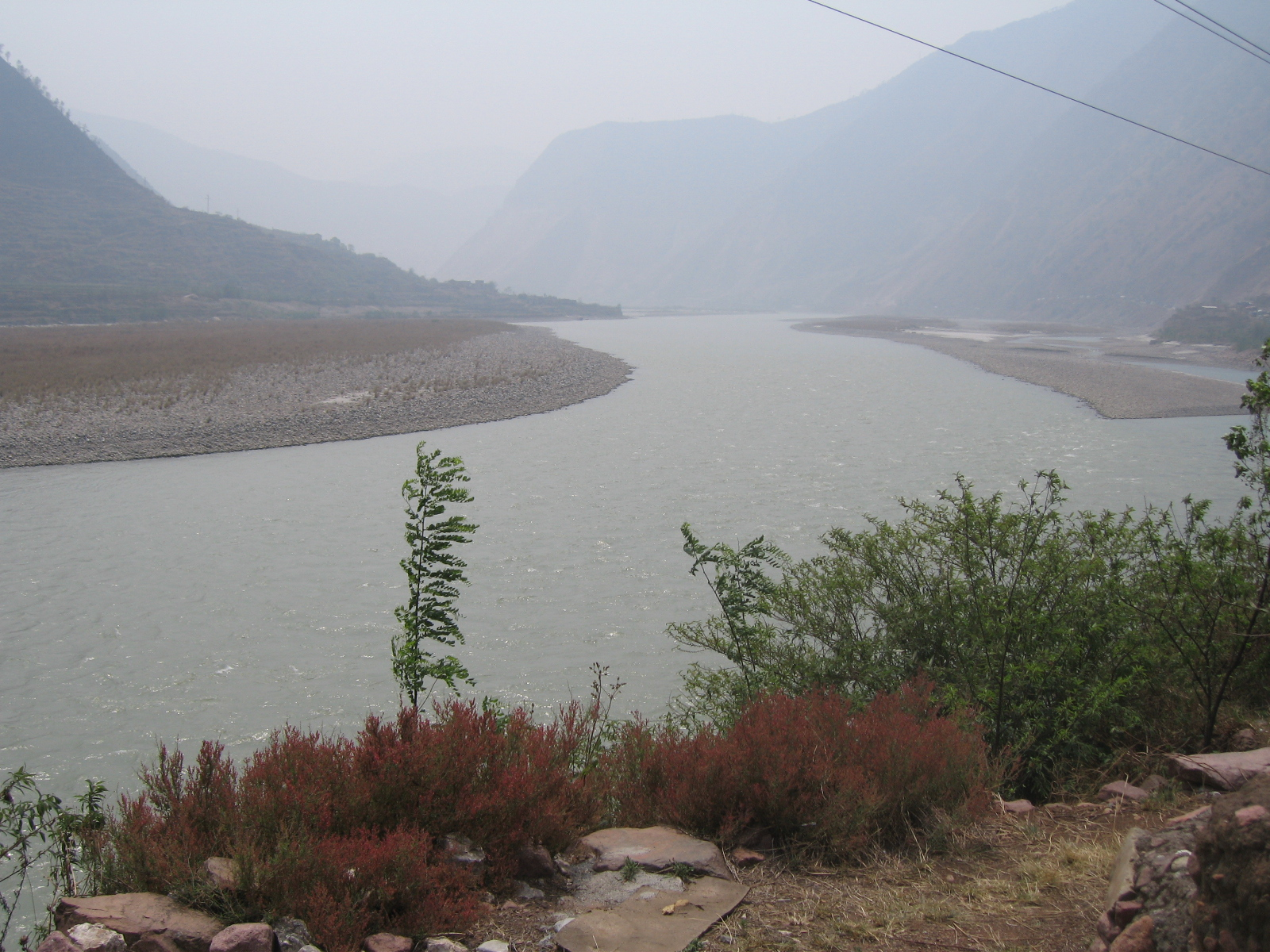 The Dadu River in canyon near Hanyuan, central Sichuan — southern China. A tributary of the Yangtze River (Chang Jiang).